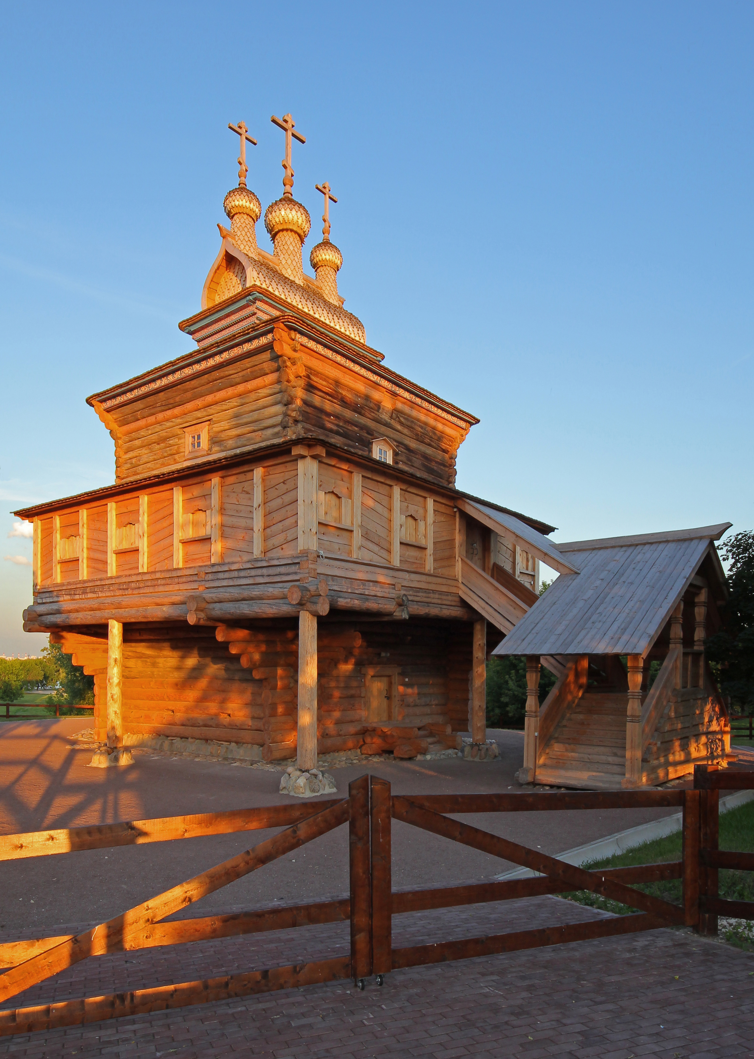 Kolomenskoe Museum Reserve in Moscow. Wooden St. George Church (built in 1685 near Arkhangelsk).